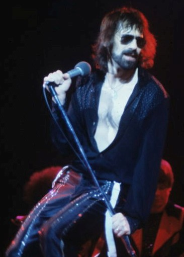 Peter Wolf performing in concert.